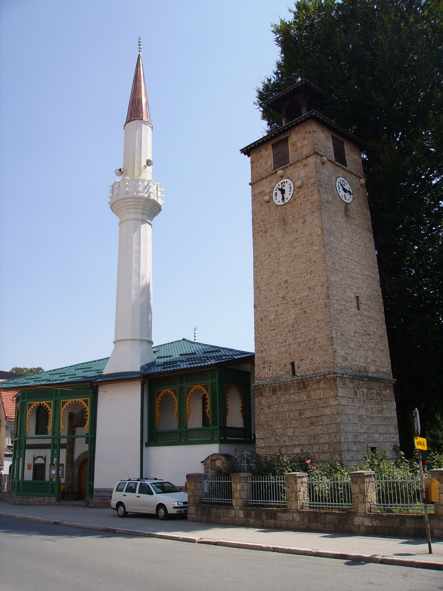 Mosque and Clock tower in Travnik (Bosnia and Herzegovina).